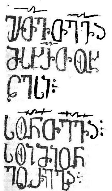 Ekvtime Takaishvili's rendition of the asomtavruli Georgian inscription from the Zarzma monastery, placed above the fresco portrait of Simon Gurieli, Duke of Dukes, Lord High Steward, Duke of the Svans ("ერისთავთ-ერისთავი, მსახურთუხუცესი, სუანთ ერისთავი სუიმიონ გურიელი").